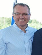 MP Luc Berthold (Cropped). (Photograph taken in Victoriaville.)